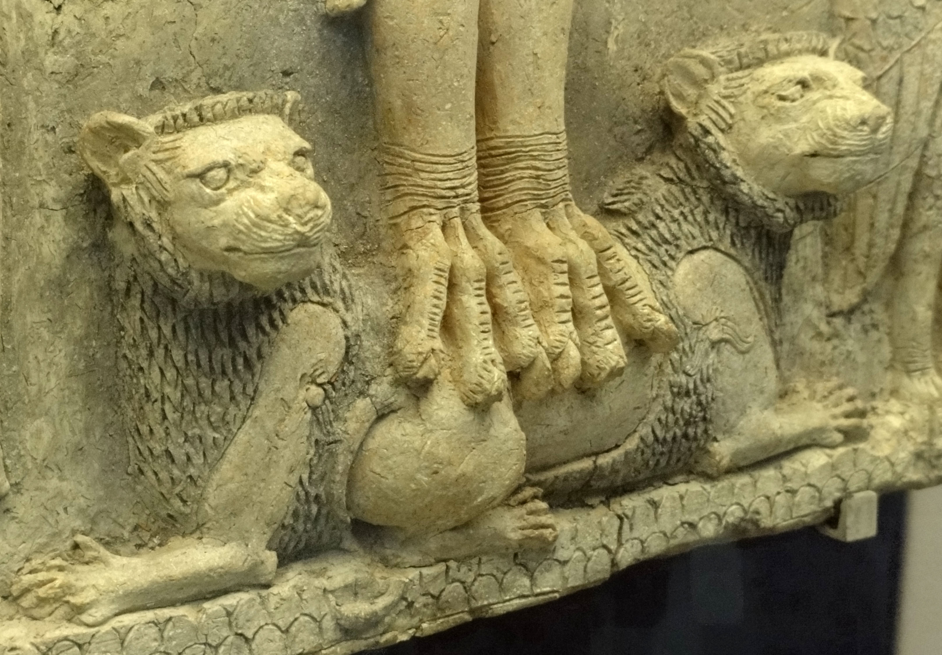 Detail of lions on the Burney Relief.